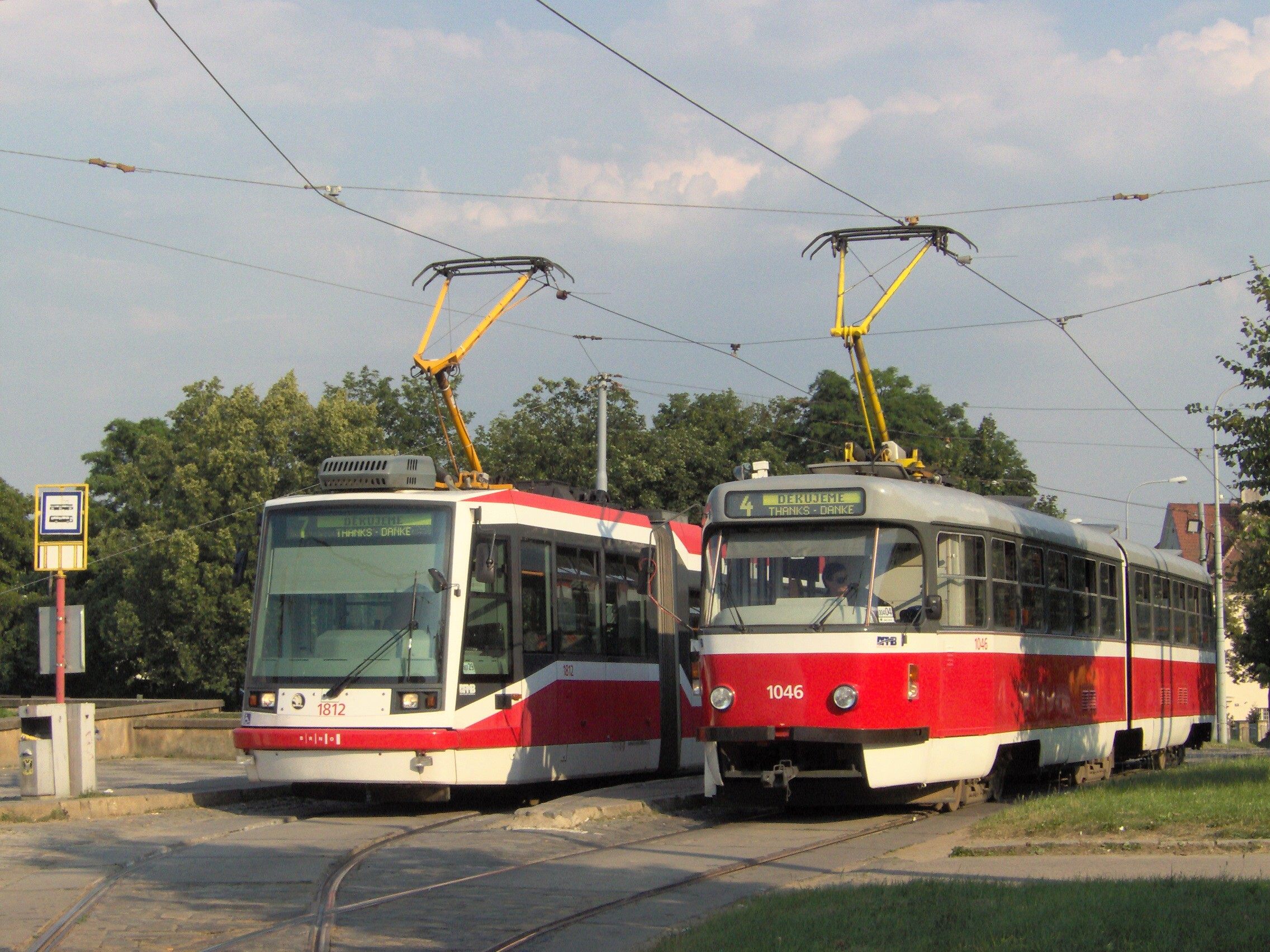 Škoda 03T No. 1812 and Tatra K2P No. 1046 trams, Brno, Czech Republic